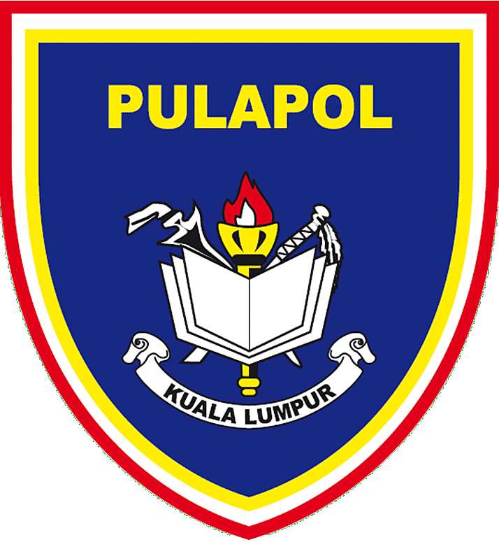 An official crest of the Royal Malaysia Police PULAPOL of Kuala Lumpur.